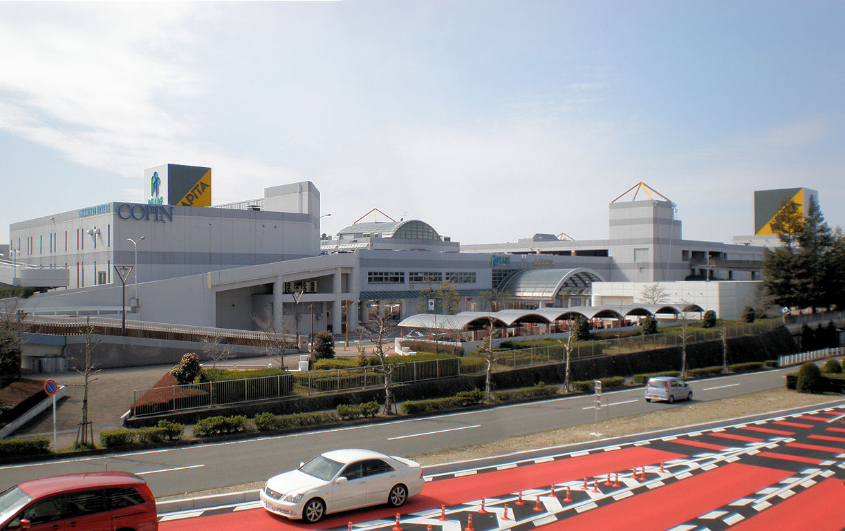 Peare Apita Tokadai Store in Komaki City, Aichi Prefecture, Japan